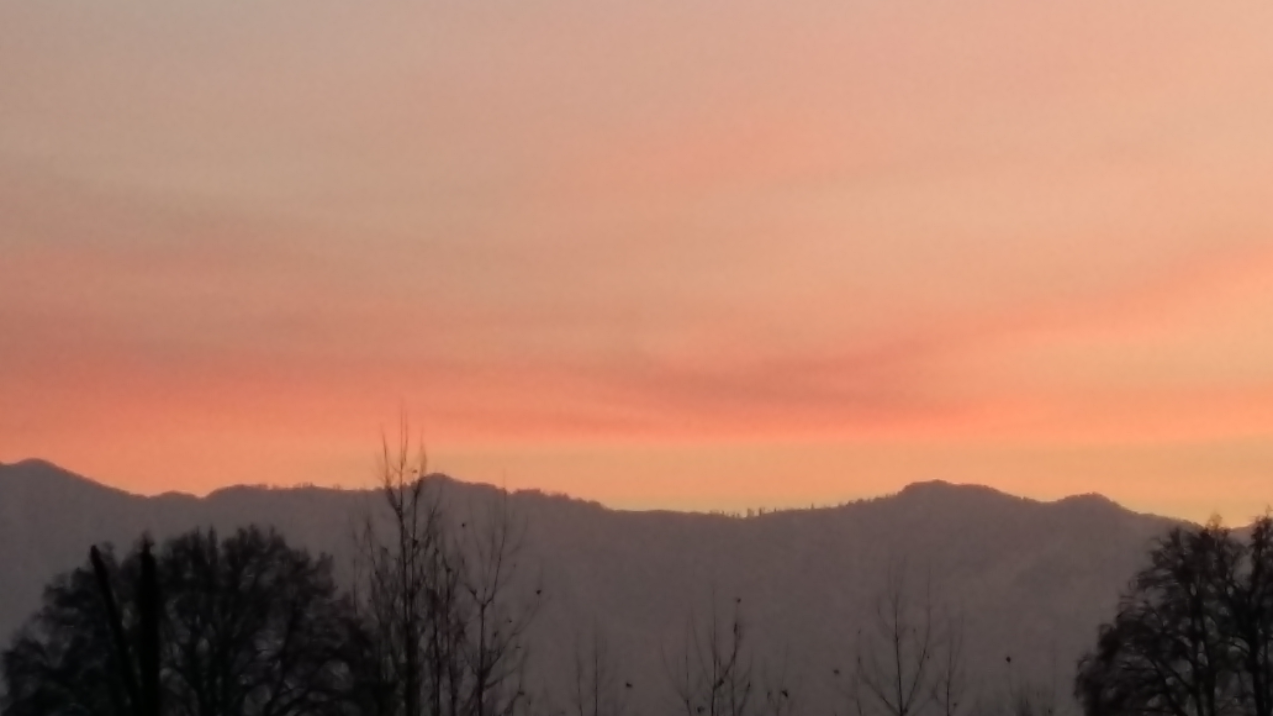 Sunset image Near Fatehpora Anantnag